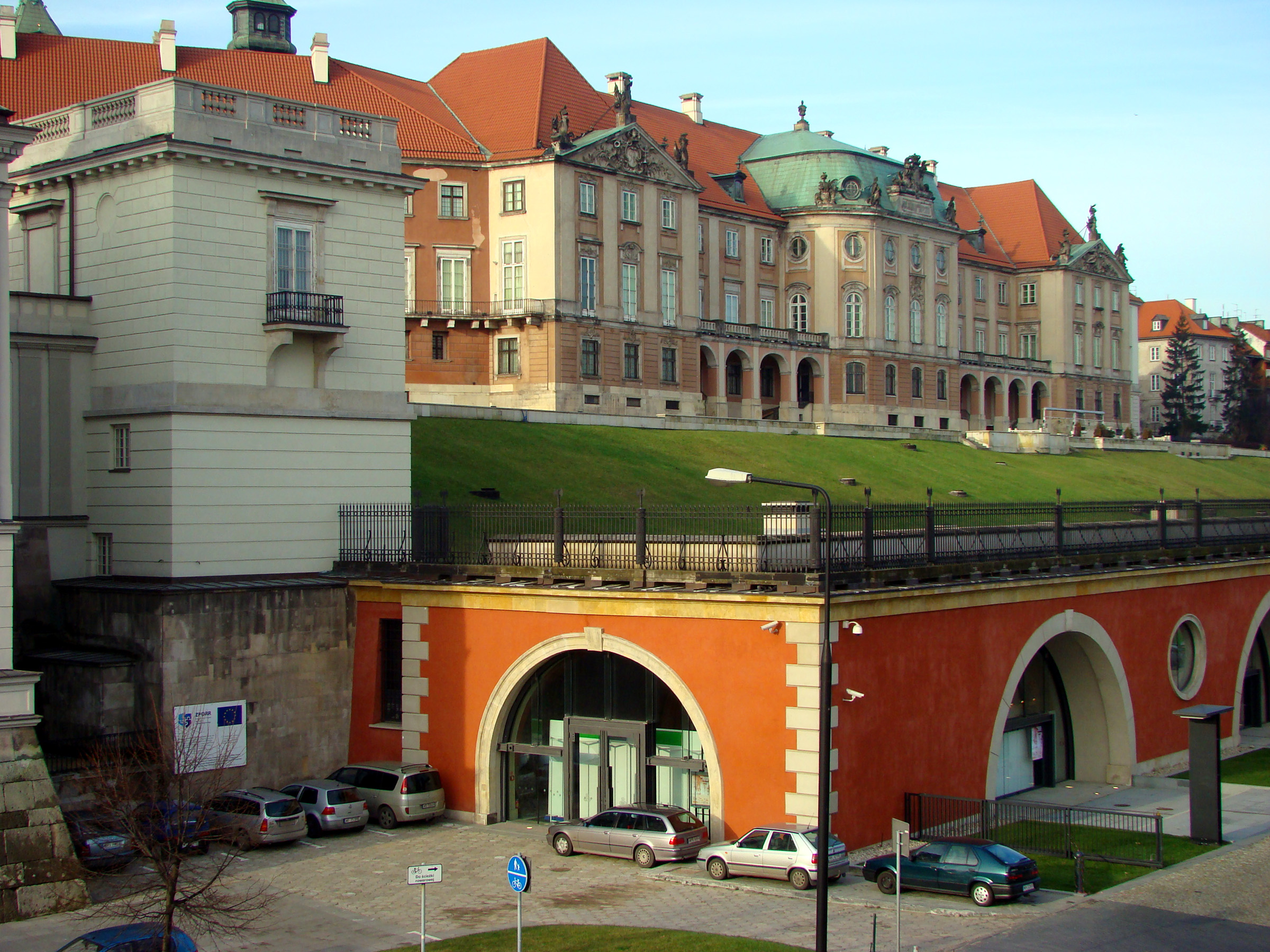 Eastern facade of the Royal Castle and Kubicki Arcades, Warsaw